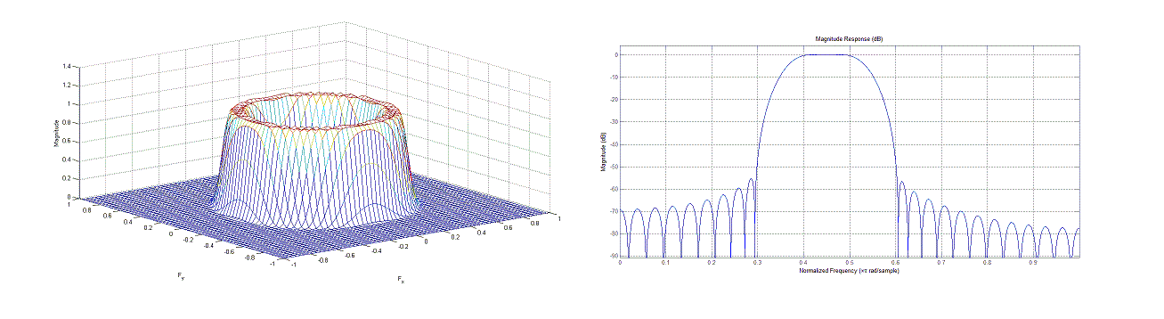 A 2-D filter alongside its 1-D filter prototype.